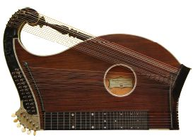 Concert harf zither "Perfecta"